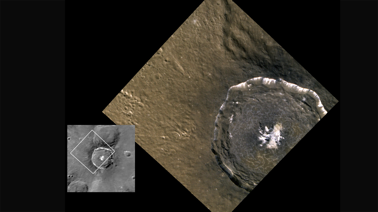 This spectacular view of the crater Degas was obtained as a high-resolution targeted observation (90 m/pixel). Impact melt coats its floor, and as the melt cooled and shrank, it formed the cracks observed across the crater. For context, Mariner 10’s view of Degas is shown at left. Degas is 52 km in diameter and is centered at 37.1° N, 232.8° E. The MESSENGER spacecraft is the first ever to orbit the planet Mercury, and the spacecraft's seven scientific instruments and radio science investigation are unraveling the history and evolution of the Solar System's innermost planet. Visit the Why Mercury? section of this website to learn more about the key science questions that the MESSENGER mission is addressing. During the one-year primary mission, MDIS is scheduled to acquire more than 75,000 images in support of MESSENGER's science goals. Instrument: Wide Angle Camera (WAC) of the Mercury Dual Imaging System (MDIS)